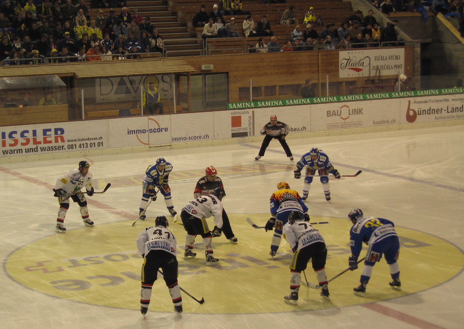 HC Davos vs. Fribourg-Gotteron, 29-Oct-2005, Eisstadion Davos, Nationalliga A